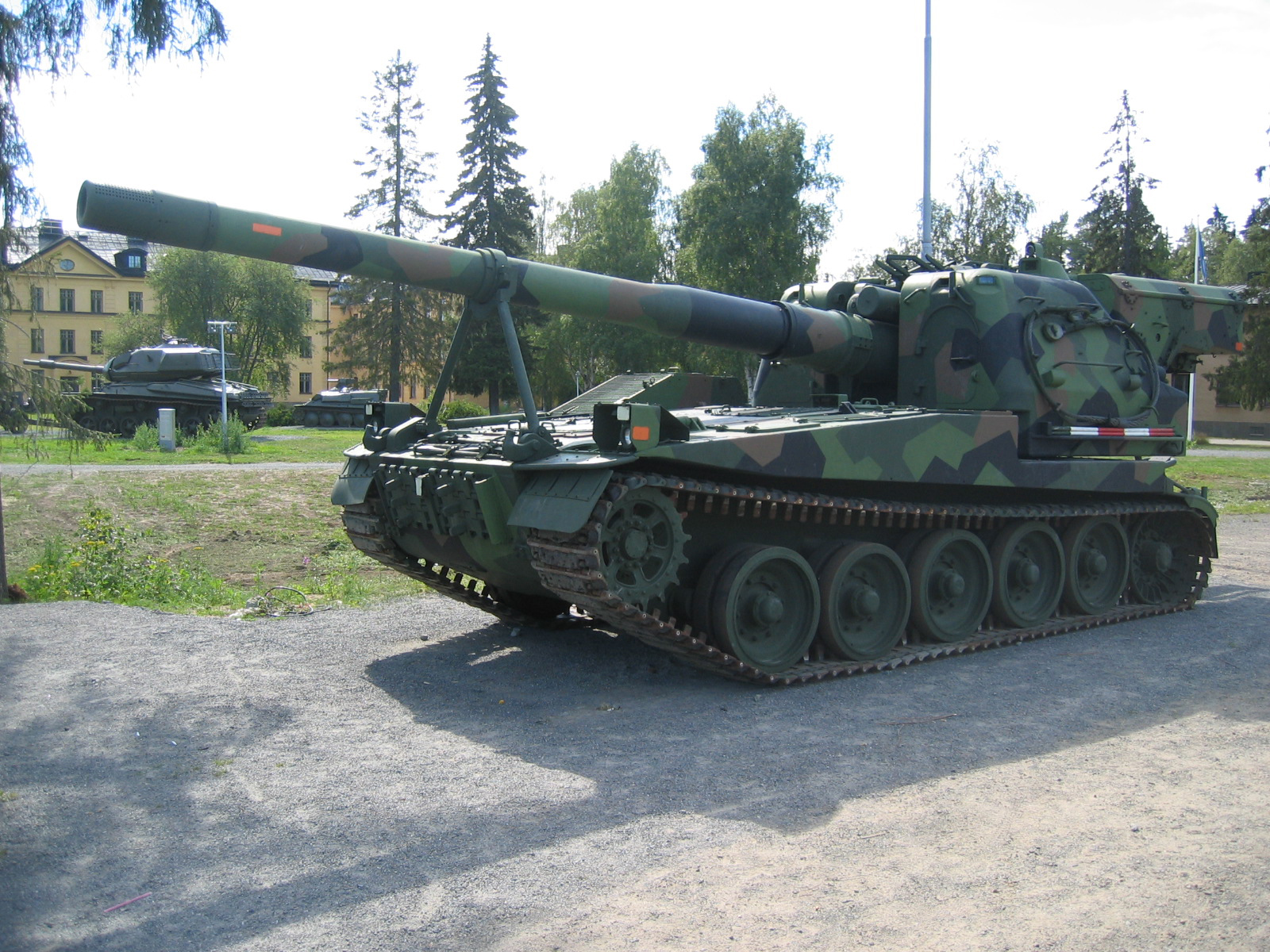 A Swedish Bandkanon 1 155 mm self-propelled howitzer outside the military history museum in Boden.